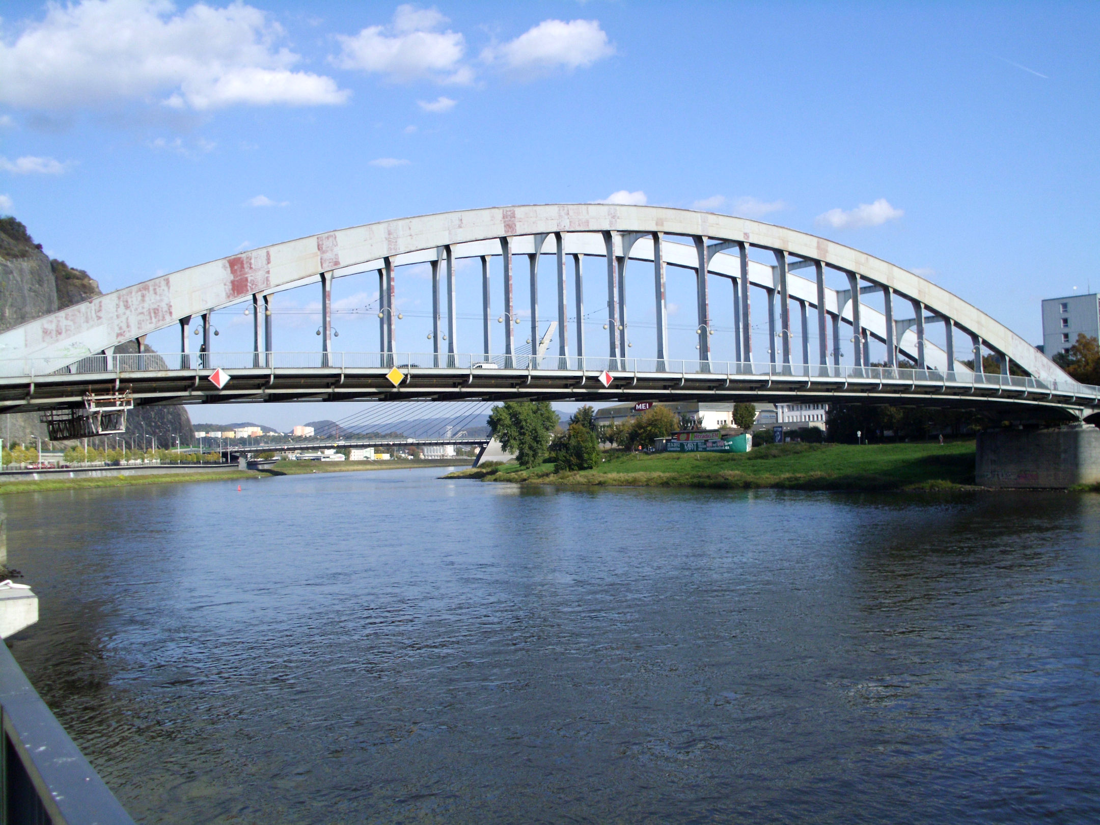 Ústí nad Labem